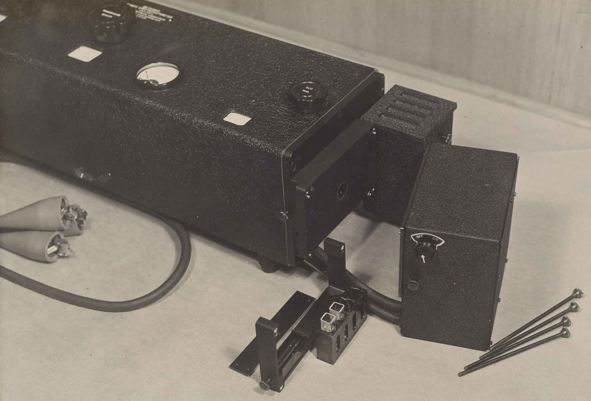 Original photograph used for Figure 7. View of spectrophotometer showing disassembled absorption cell and photo-tube compartment from from Cary, H. H.; Beckman, Arnold O. (1941). "A Quartz Photoelectric Spectrophotometer". Journal of the Optical Society of America. 31 (11): p. 687. No copyright renewal for the journal (first renewal appears for 1951). No copyright renewal for the paper. No copyright renewal for the photograph (checked 1968, 1969).